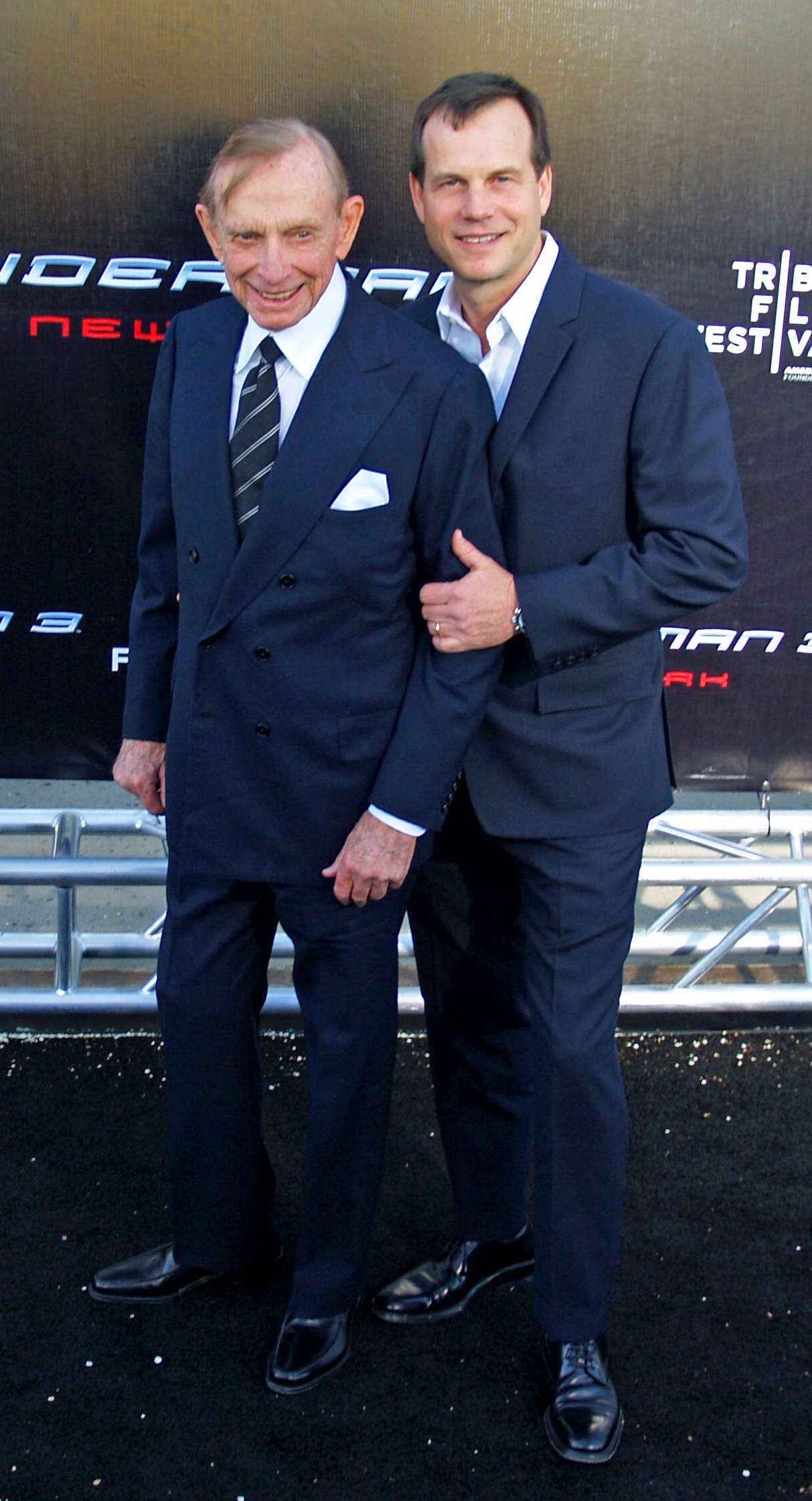 John Paxton and Bill Paxton